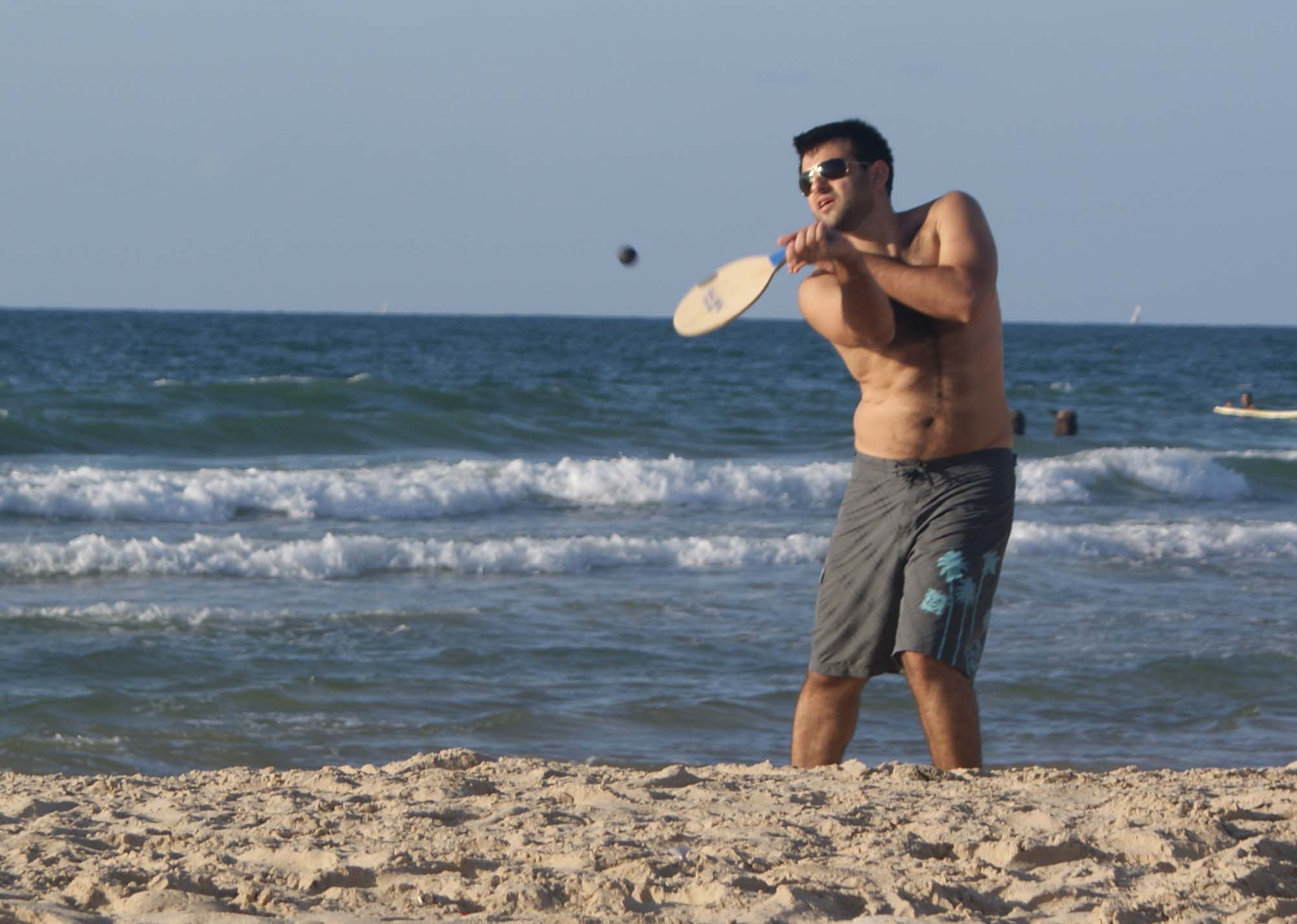 Yafo Beach - Tel Aviv (10)